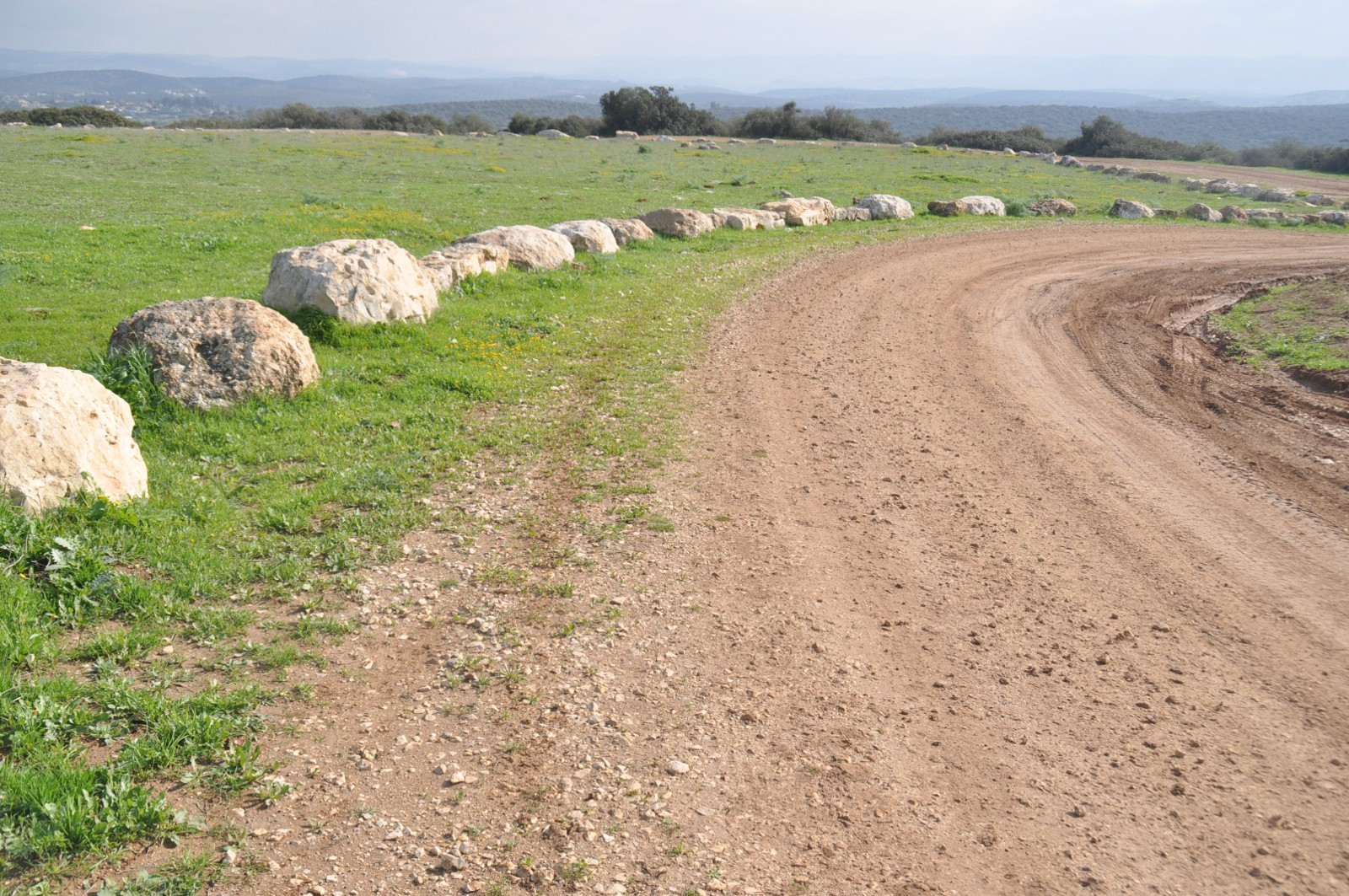 Geography of Israel